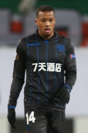 Alassane Pléa